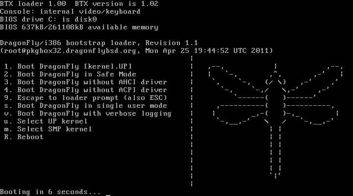 DragonFly BSD 2.10.1 "Full X11" LiveUSB boot loader screenshot, taken from QEMU 0.15.1